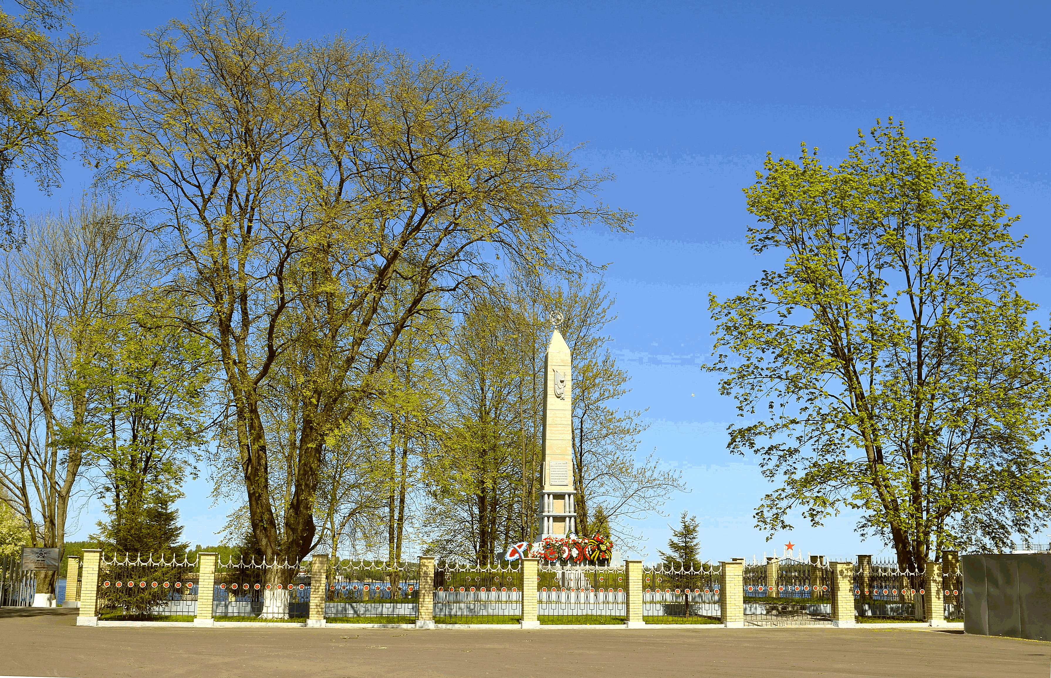 Obelisk: Tosna the mouth of the river, the left bank, 125 m south-west of the bridge, Otradnoye, Kirovsky District, Leningrad Oblast